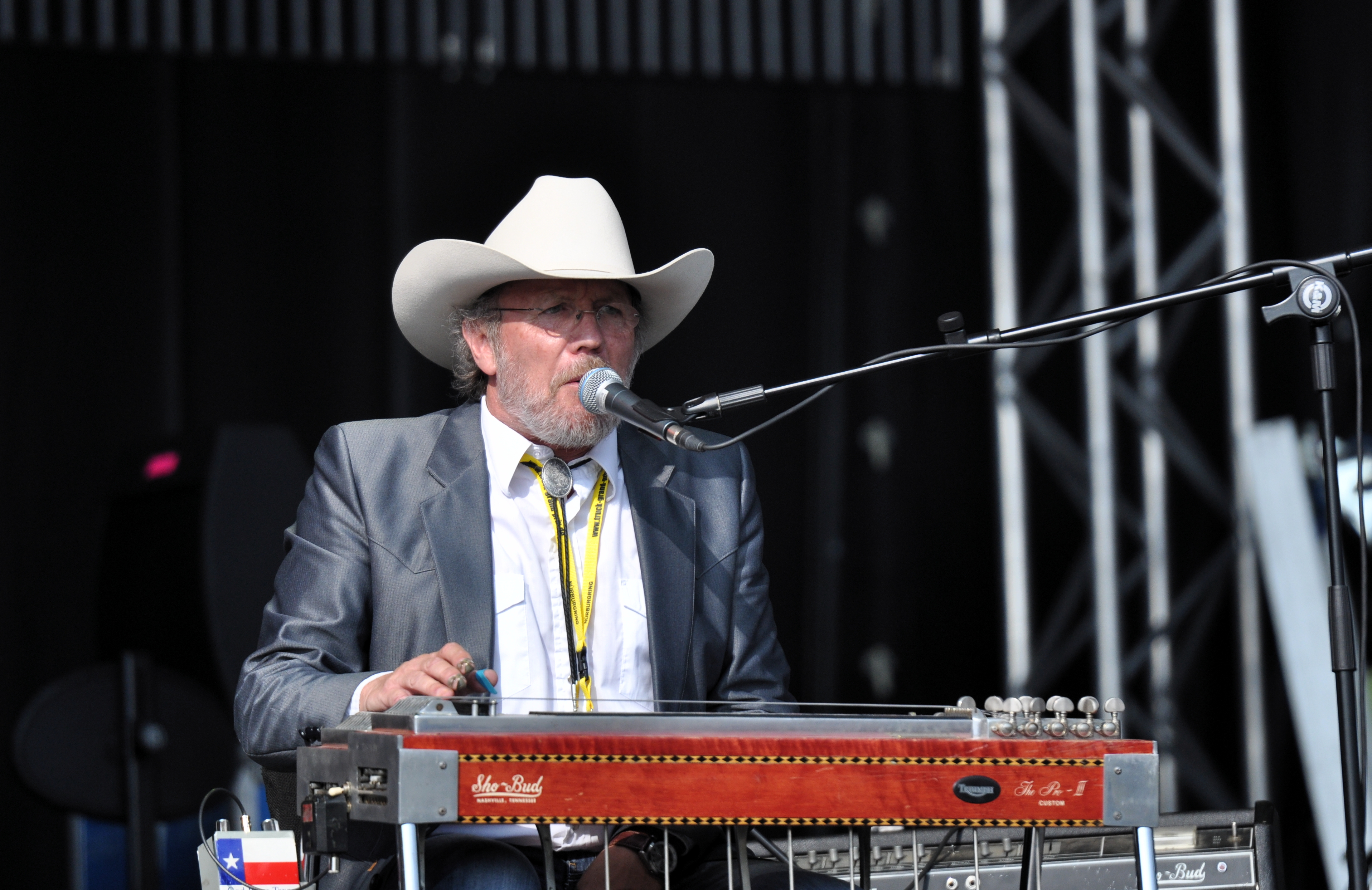 Country singer Hermann Lammers Meye with the Emsland Hillbillies at the International Truck Grand Prix Country Festival 2013, Nürburgring, Germany